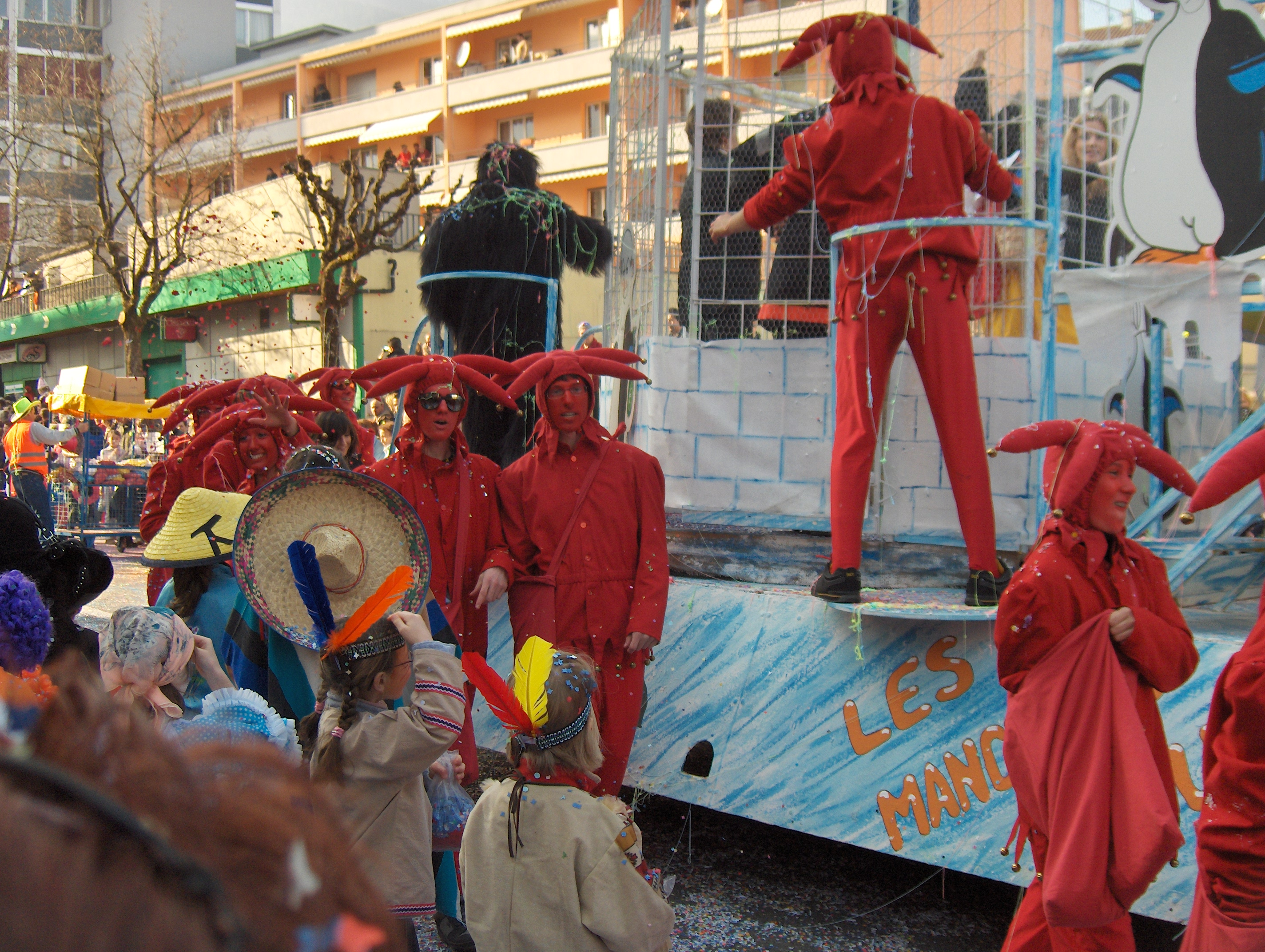 Carnaval of Monthey (Switzerland) - Feb. 2007